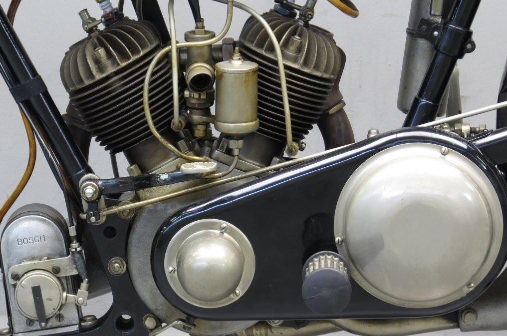 1926 James Model 12 motorcycle, side valve V-twin engine, left side